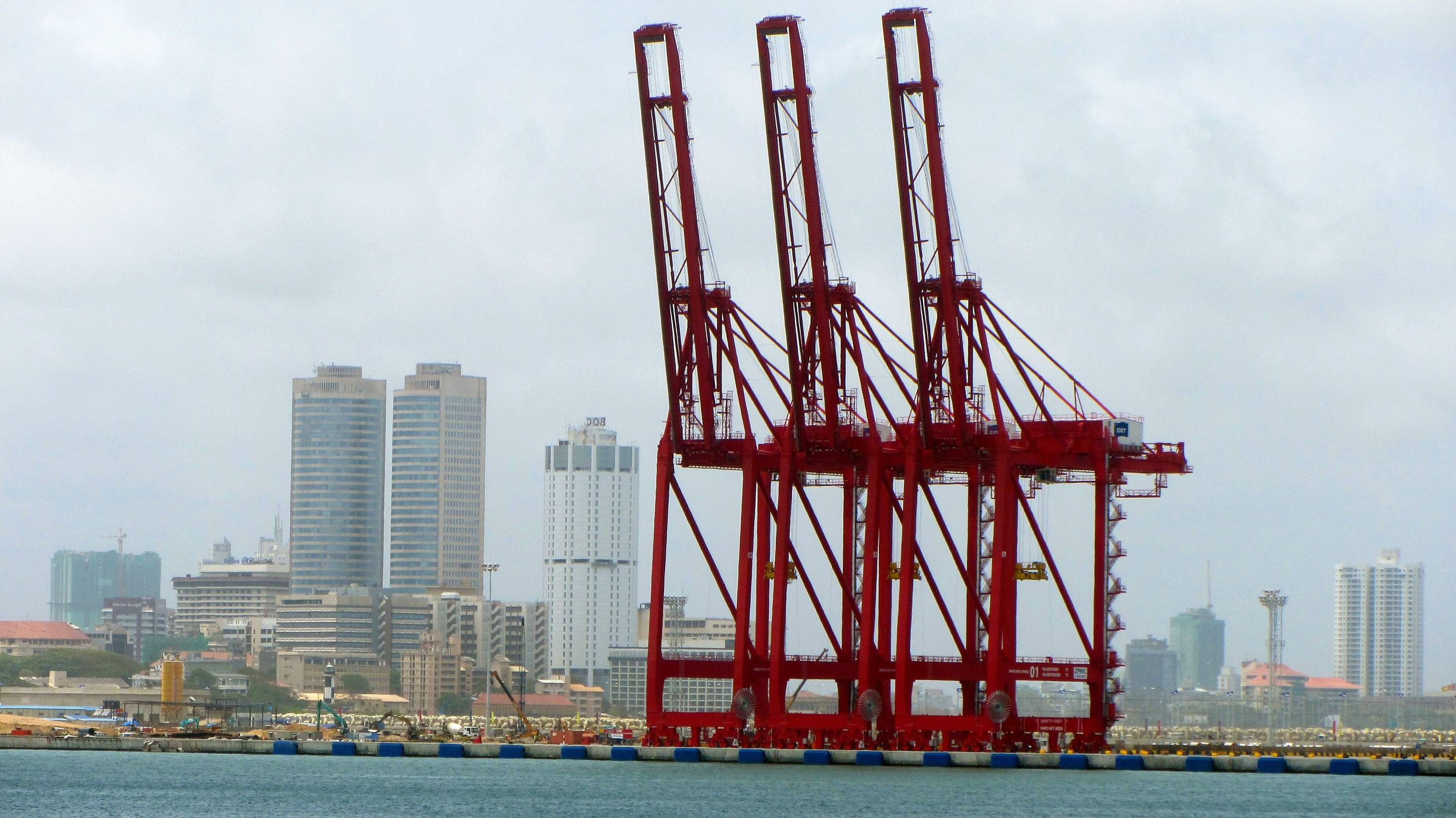 Container cranes at the Colombo Harbour, with the World Trade Center and the BOC tower in the background.